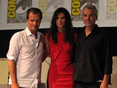 The photo shoot after the Gravity panel with Sandra Bullock [center] and director Alfonso Cuarón [right]